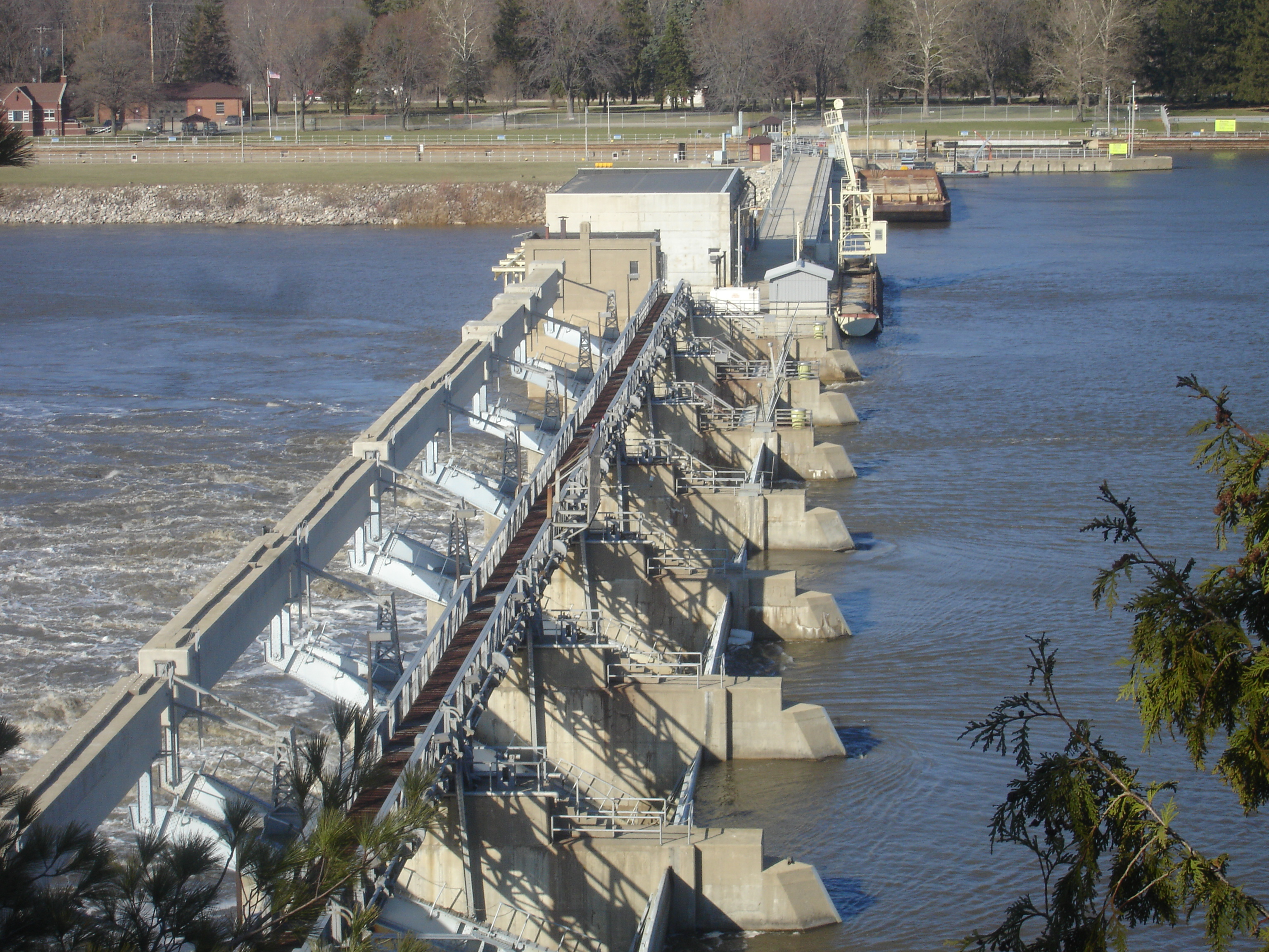 Starved Rock Lock and Dam